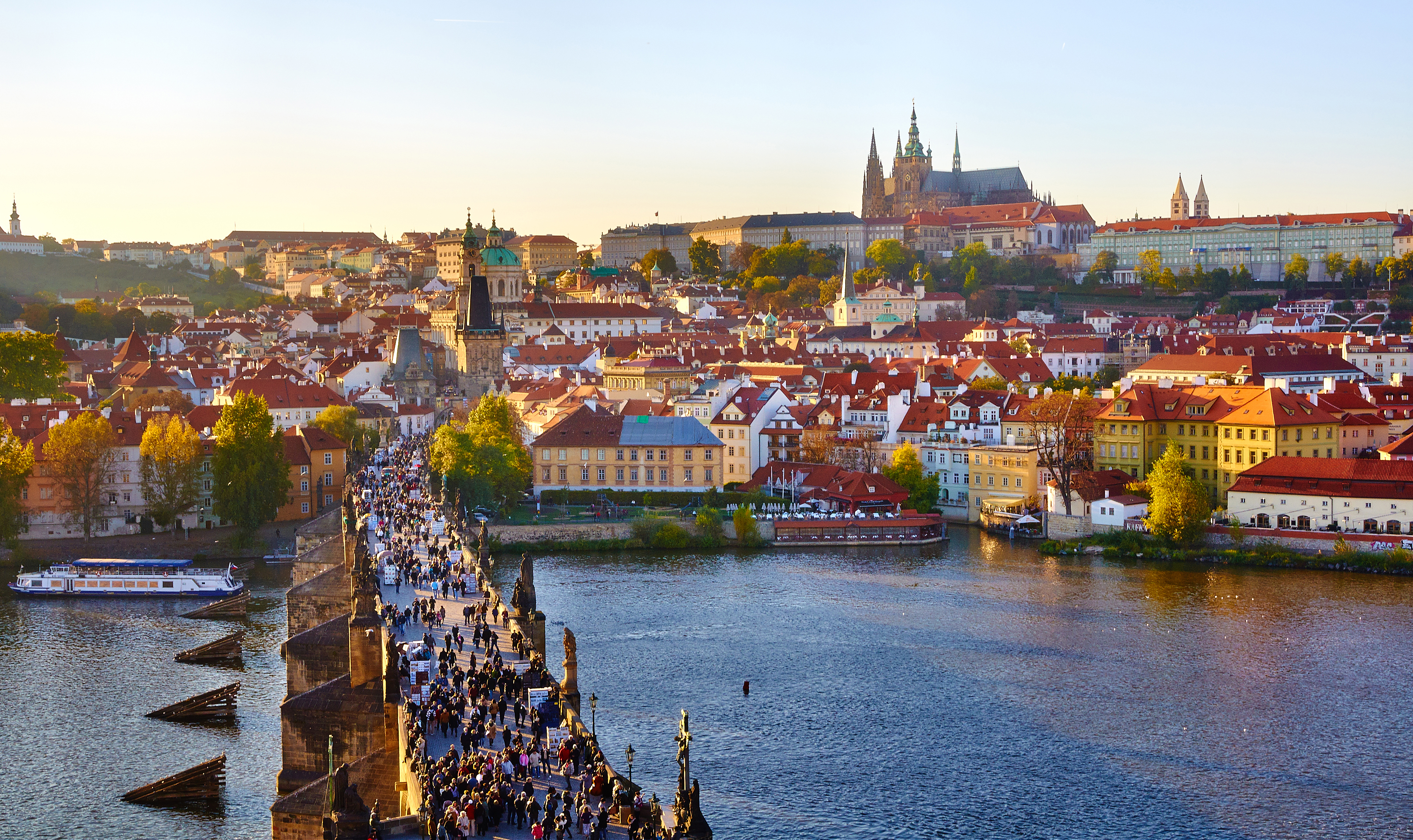 Prague, panoramic view from Charles Bridge east tower